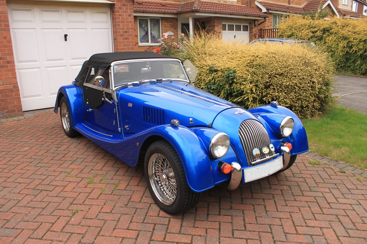 A 2-seater Morgan Roadster.